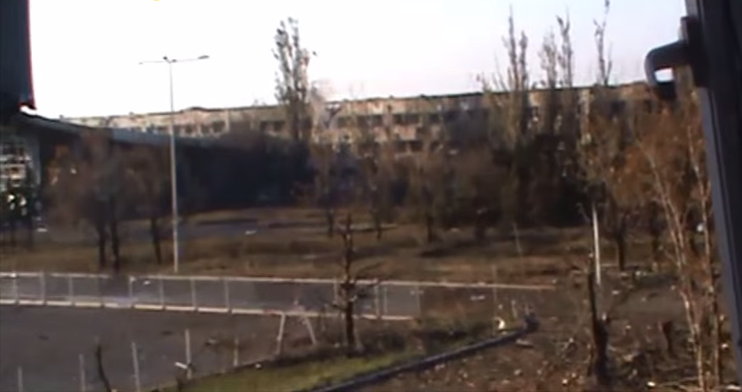 Ukrainian positions in the Old Terminal getting shot at by the DPR Sparta Battalion on October 6, 2014.